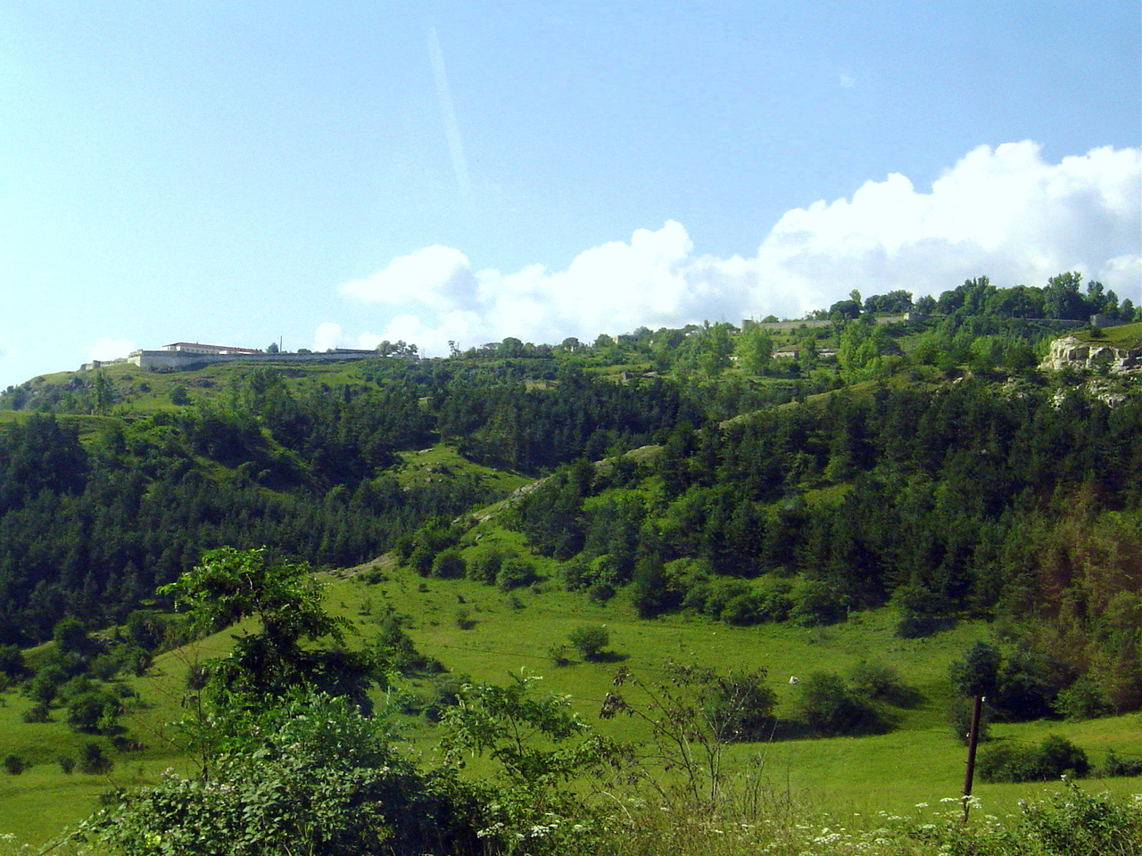 The town of Shushi, as seen from the road leading up to it.